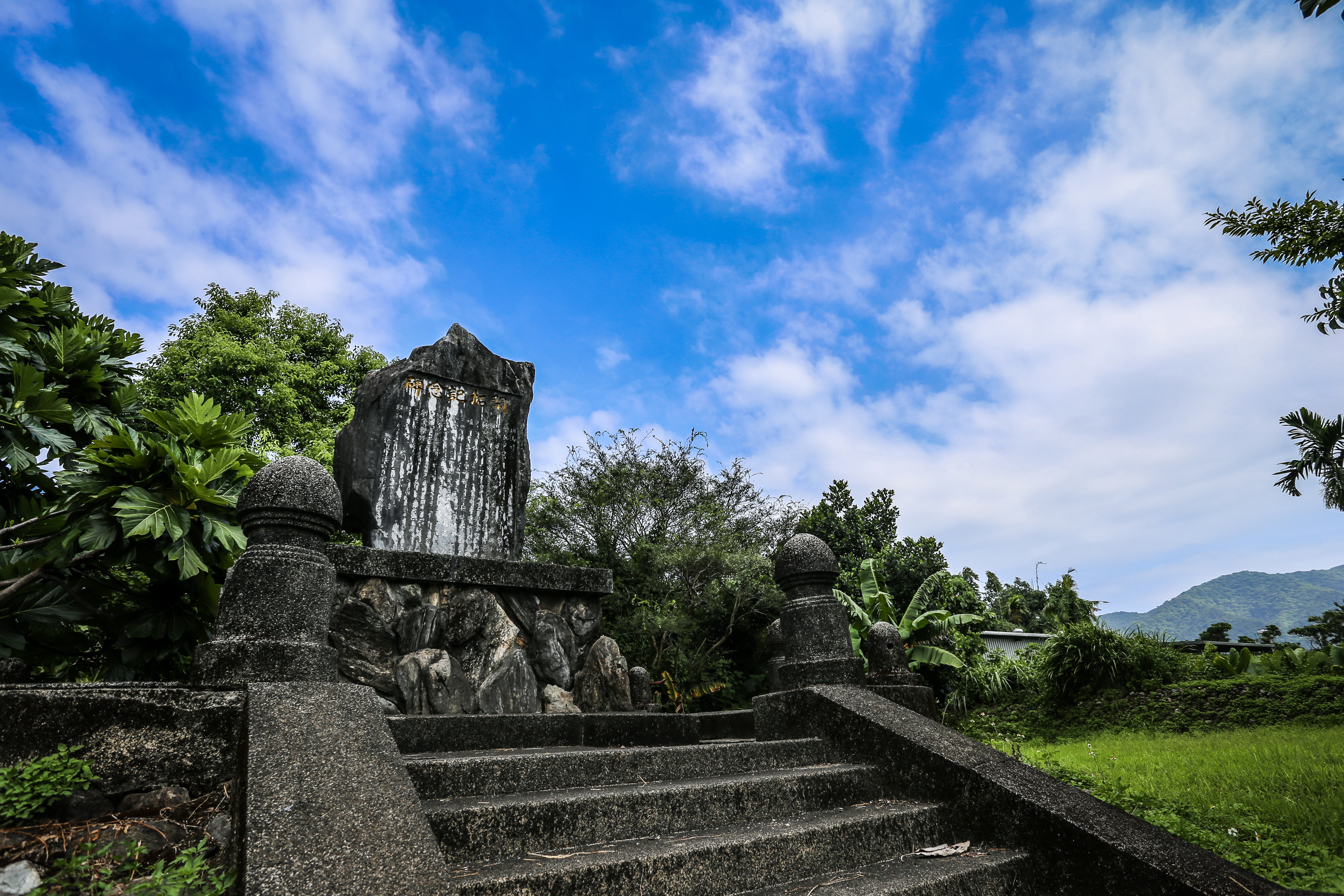 Wuquan City Founding Memorial Stele, Pinghe Village, Shoufeng Township, Hualien County, Taiwan.